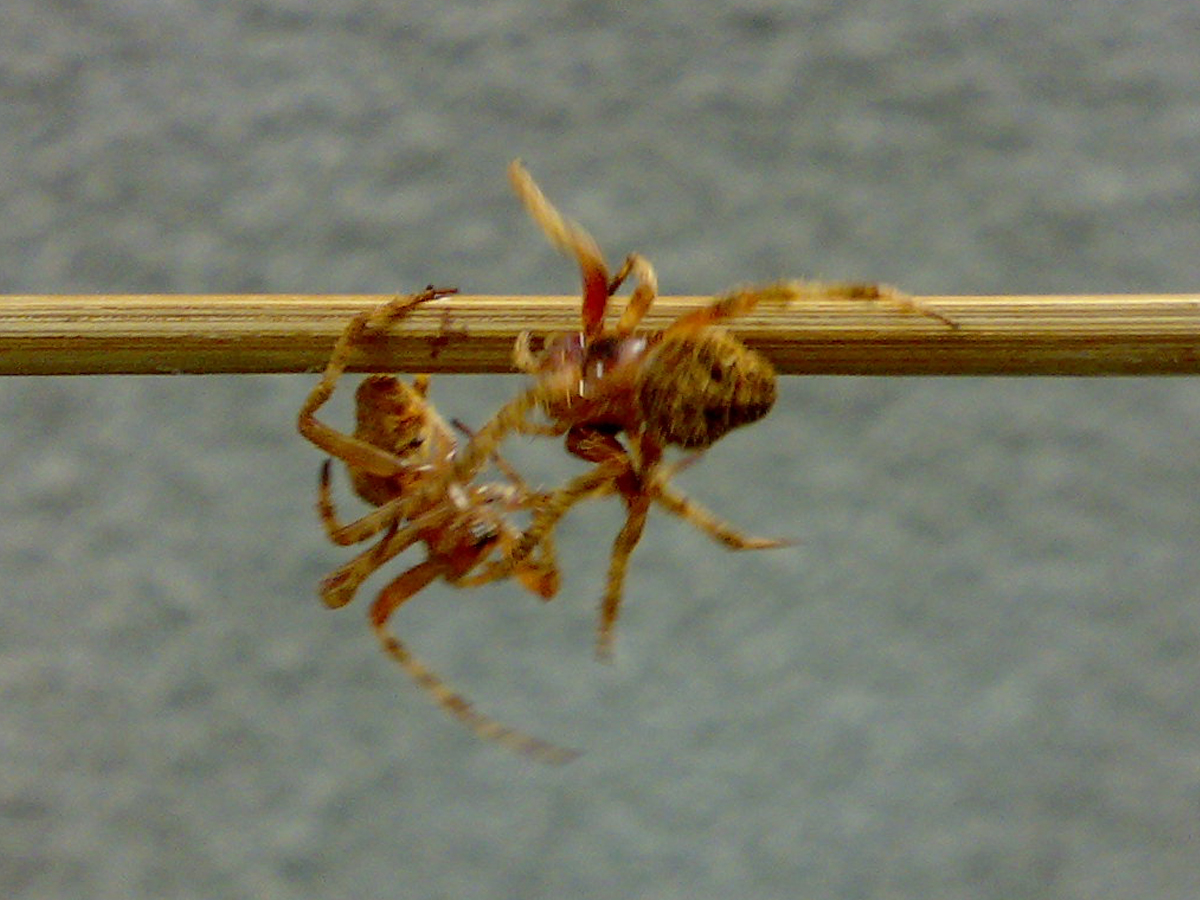 Two spiders engage in a fight to the death.